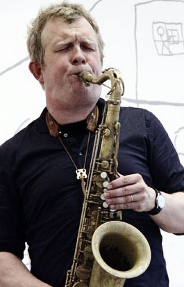 Fredrik Ljungkvist playing with Admiral Awesome in Aarhus, Denmark 2011